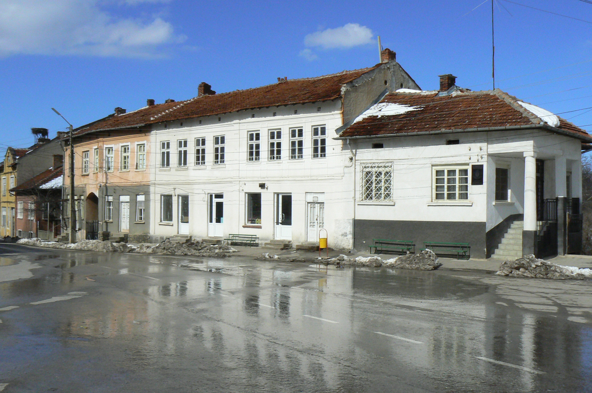 The mayors' office in Dobrevtsi, Lovech District, Bulgaria